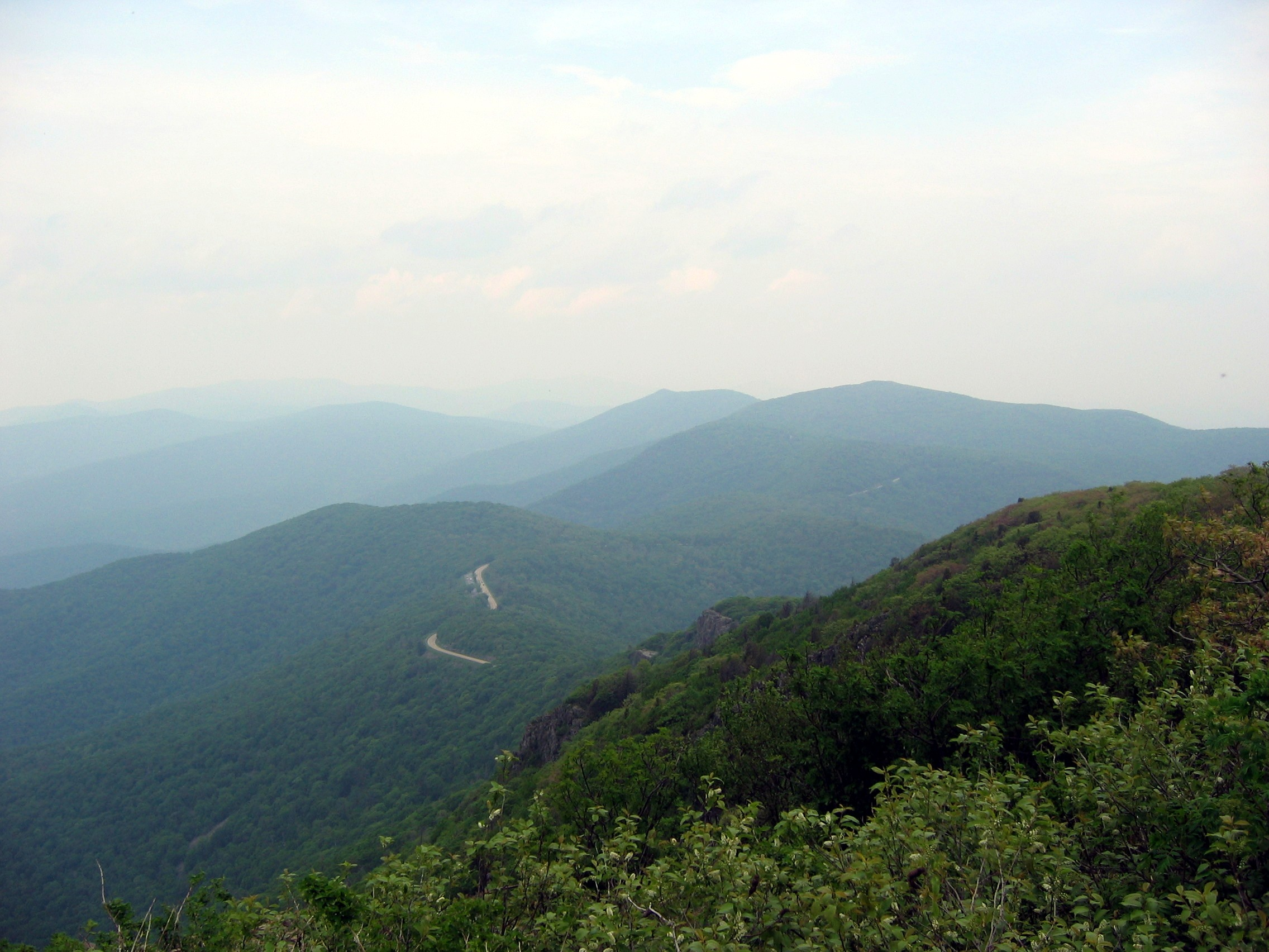 From the top right hand corner of stonyman summit. You can see the roads in between the hills. Basically the hike is from those roads to this cliff. It is a beautiful view.